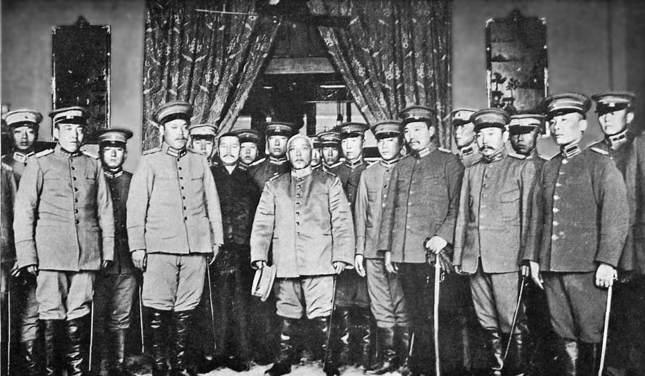 President Yuan Shi-kai photographed immediately after his Inauguration as Provisional President, March 10th, 1912.